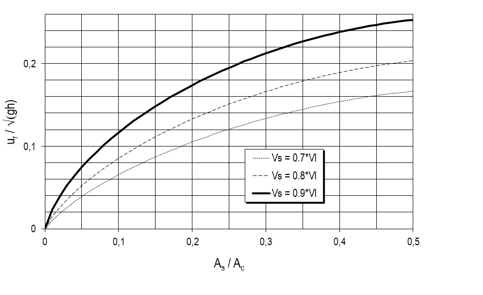 Return flow in channels of limited size according to Schijf